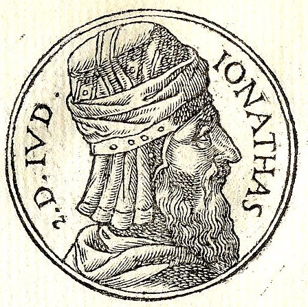 Jonathan Maccabaeus was leader of the Hasmonean Dynasty of Judea from 161 to 143 BCE.